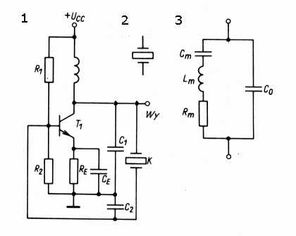 Pierce oscillator